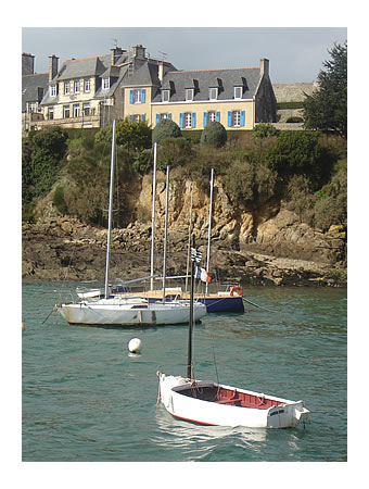 Louis Duchesne's house in city of Saint-Servan-sur-Mer, now at Saint-Malo, France.